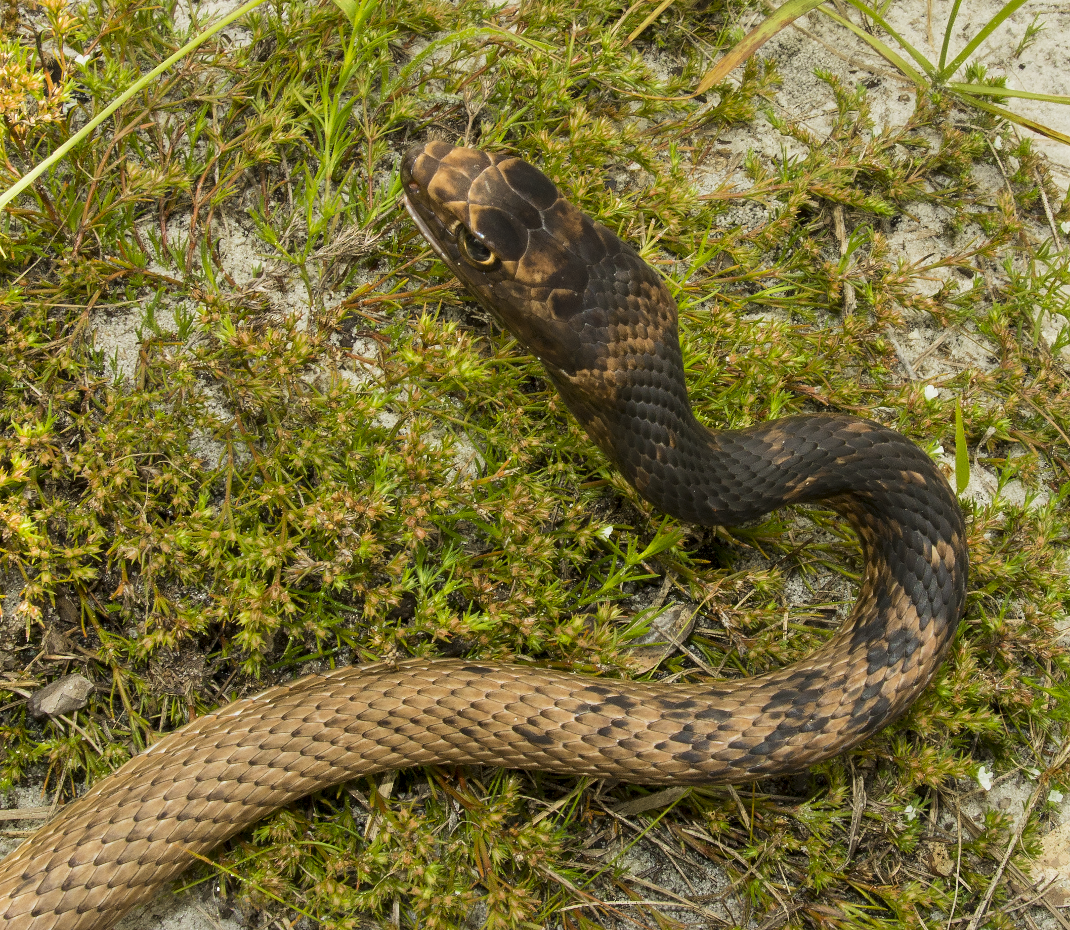 Ccoachwhip, Masticophis flagellum Florida